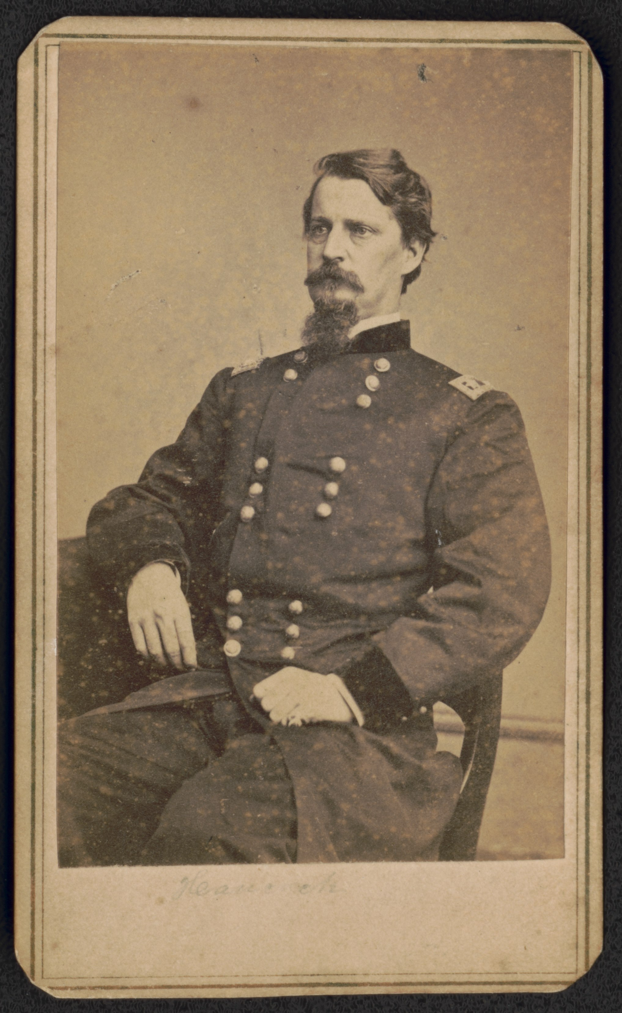 Title: Major General Winfield Scott Hancock of General Staff U.S. Volunteers Infantry Regiment in uniform] / From photographic negative in Brady's National Portrait Gallery Abstract/medium: 1 photograph : albumen print on card mount ; mount 11 x 6 cm (carte de visite format)